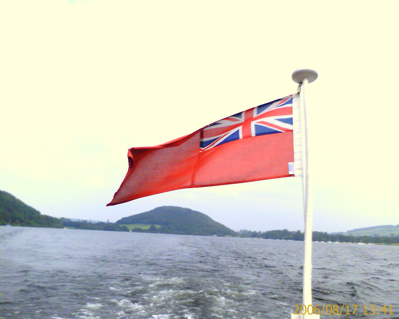 This is a photograph of a British Civil Ensign (Red Ensign).